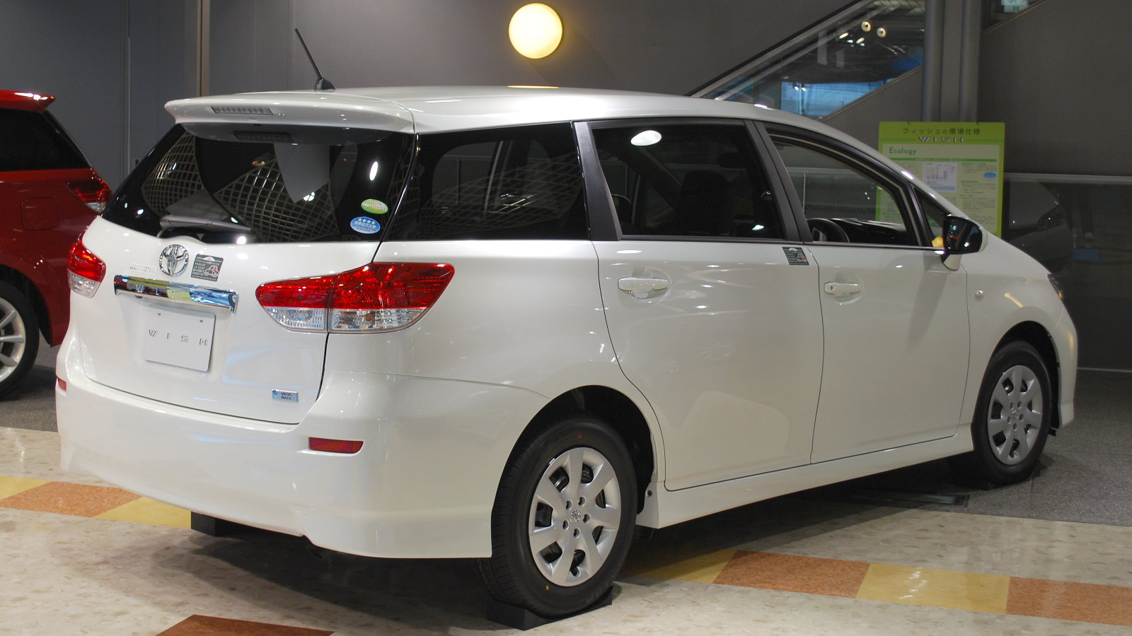 2nd generation Toyota Wish (2009/4 - ) 1.8X